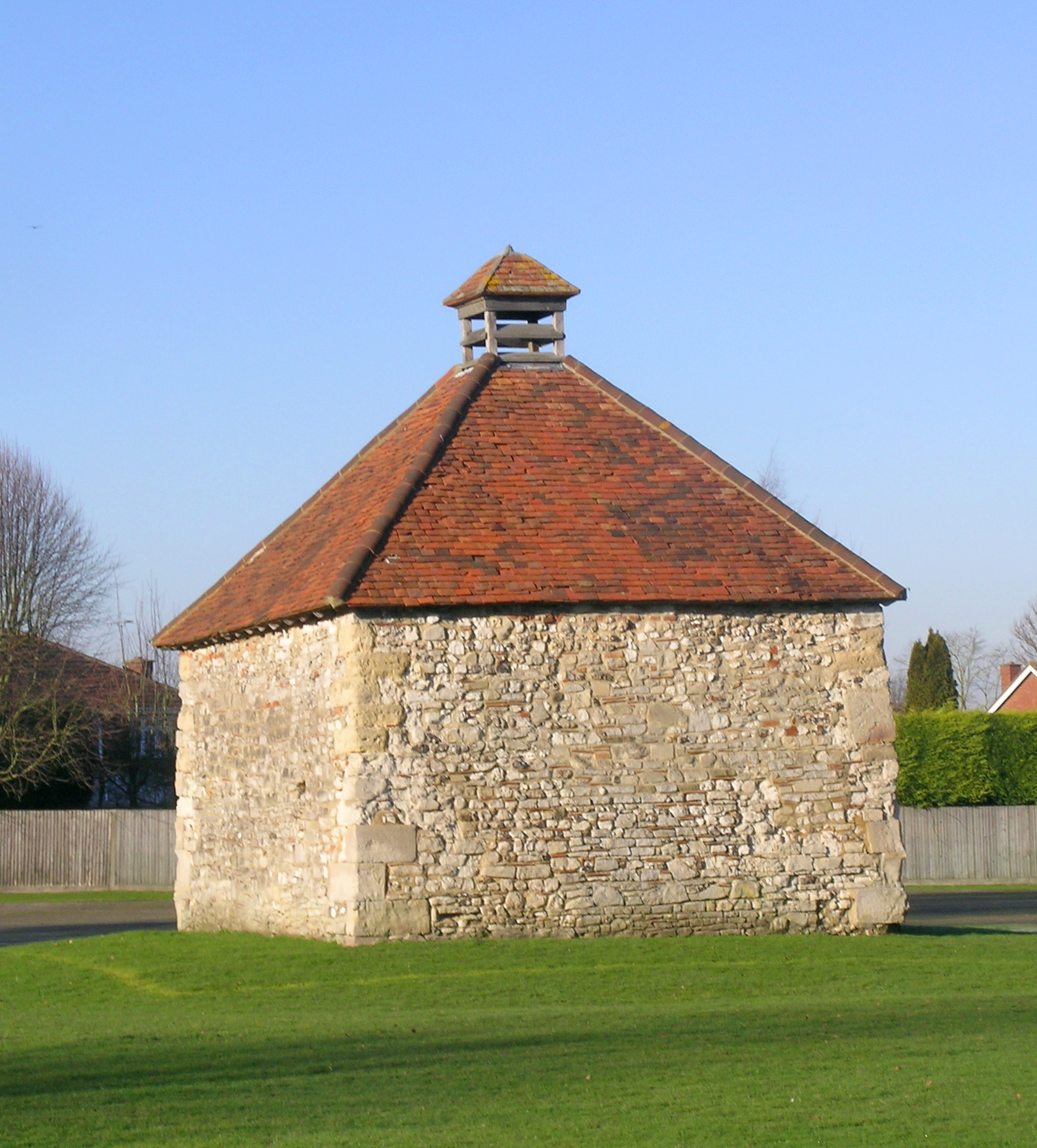 Pigeon House to north of church at Monks Risborough seen from South